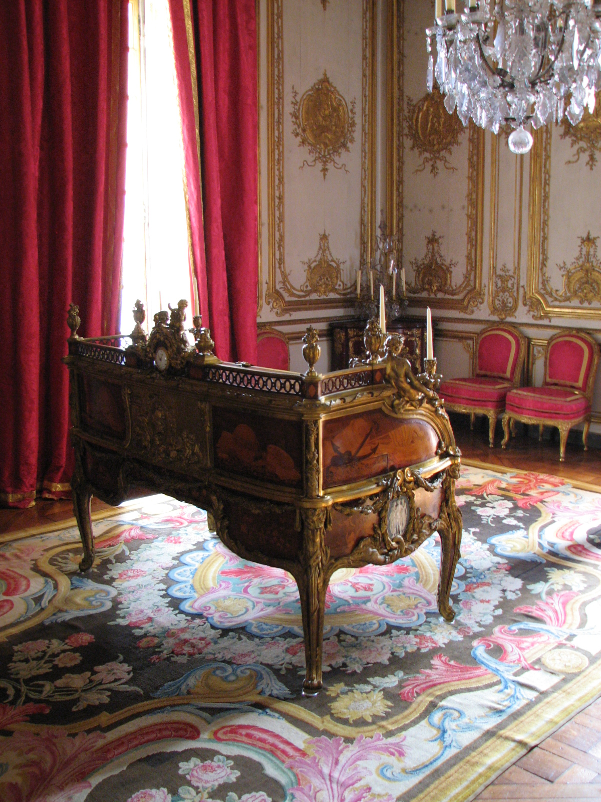 Bureau du Roi (King Desk) in the Cabinet intérieur du Roi in Versailles.